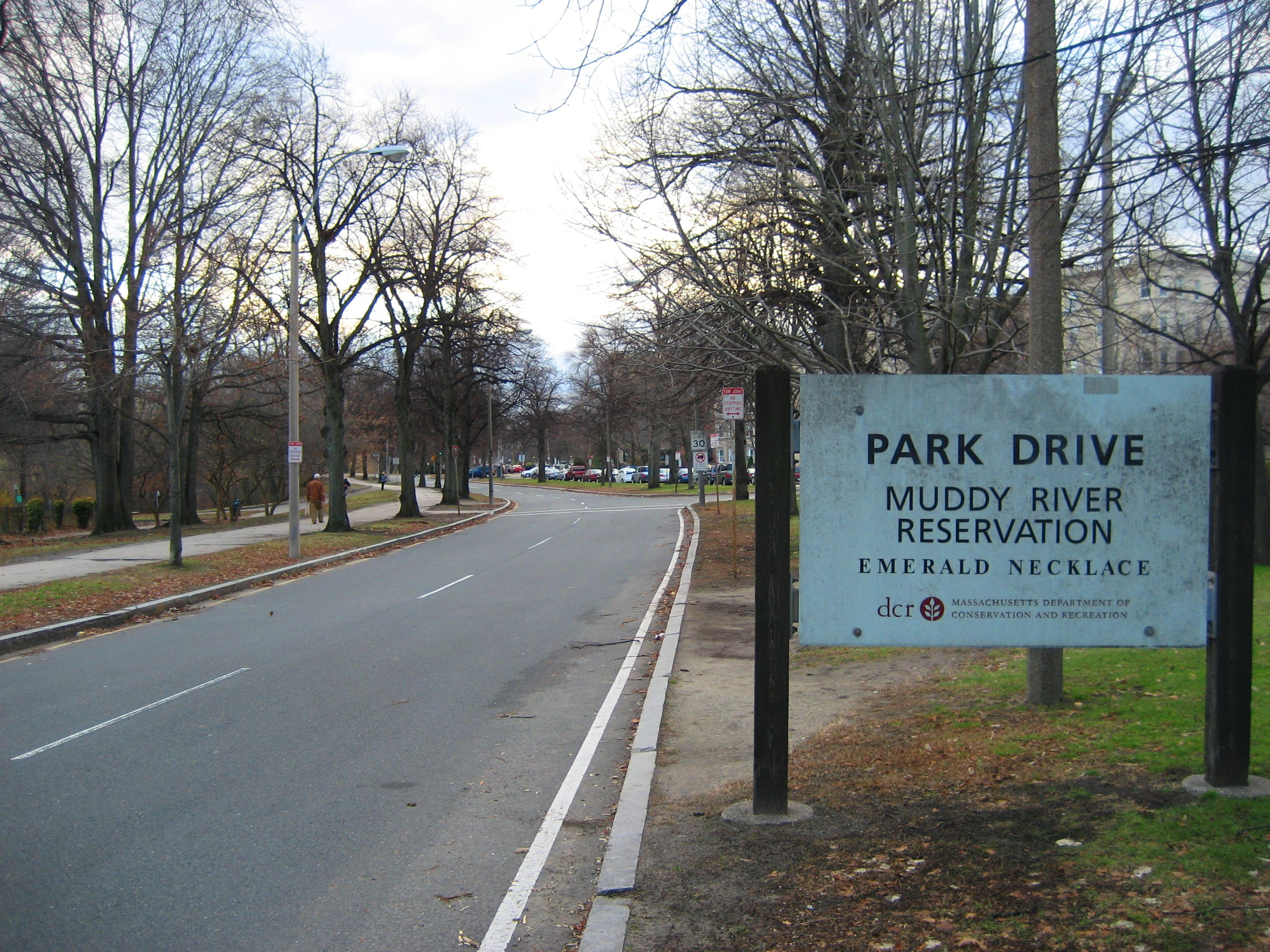 Park Drive sign near the parkway's beginning at Boylston Street in Boston.